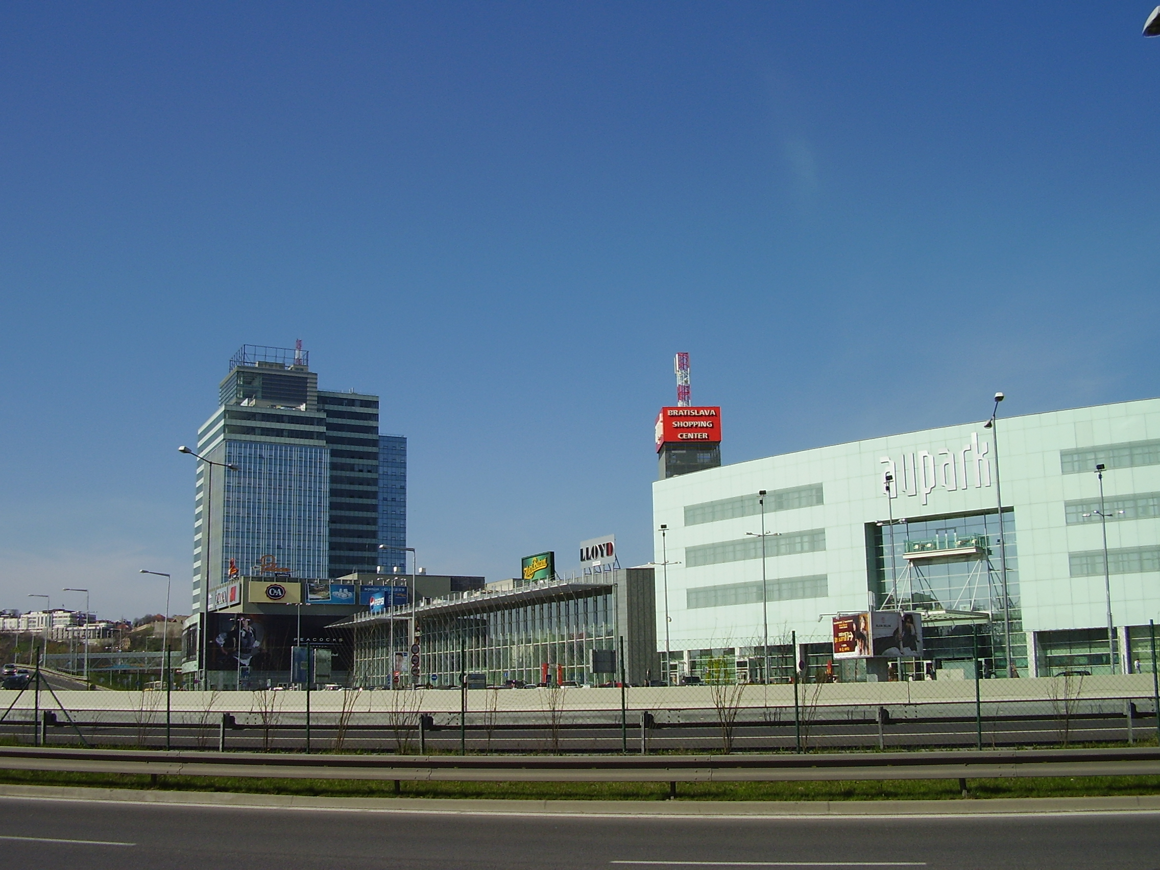 Aupark and Aupark Tower high-rise.